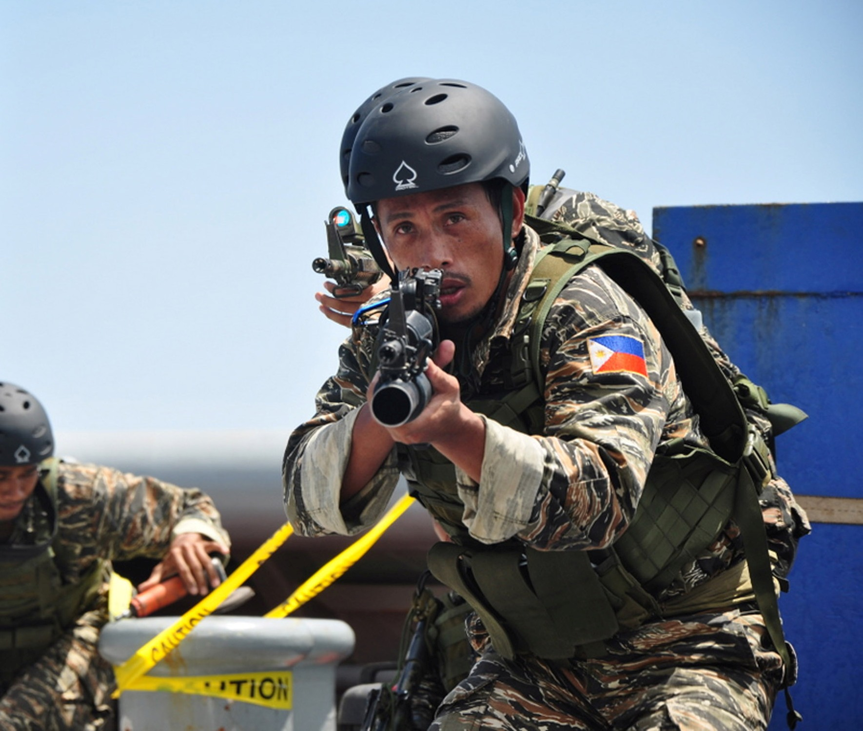 Philippine Navy Special Forces Sailors confront U.S. Sailors portraying crewmembers aboard military sealift command rescue and salvage ship USNS Safeguard (T-ARS 50)